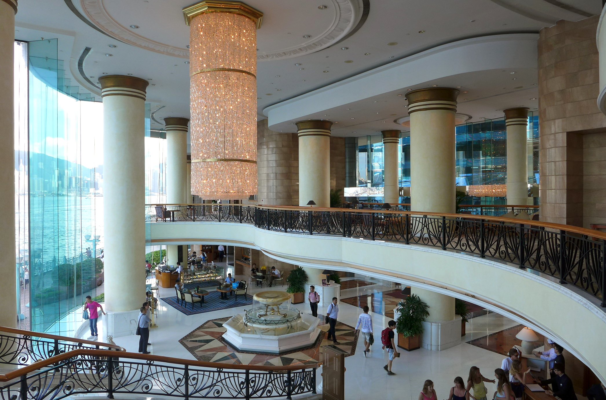 Harbour Grand Kowloon Lobby